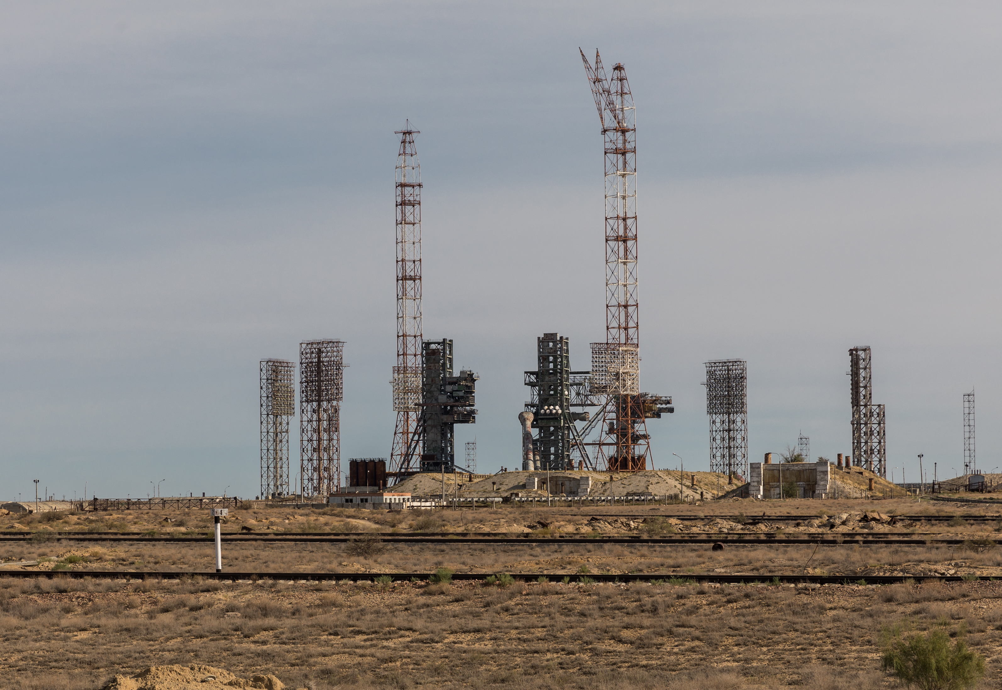 Baikonur Cosmodrome Launch pads for the Energia-Buran space shuttle at site 110 in Baikonur.